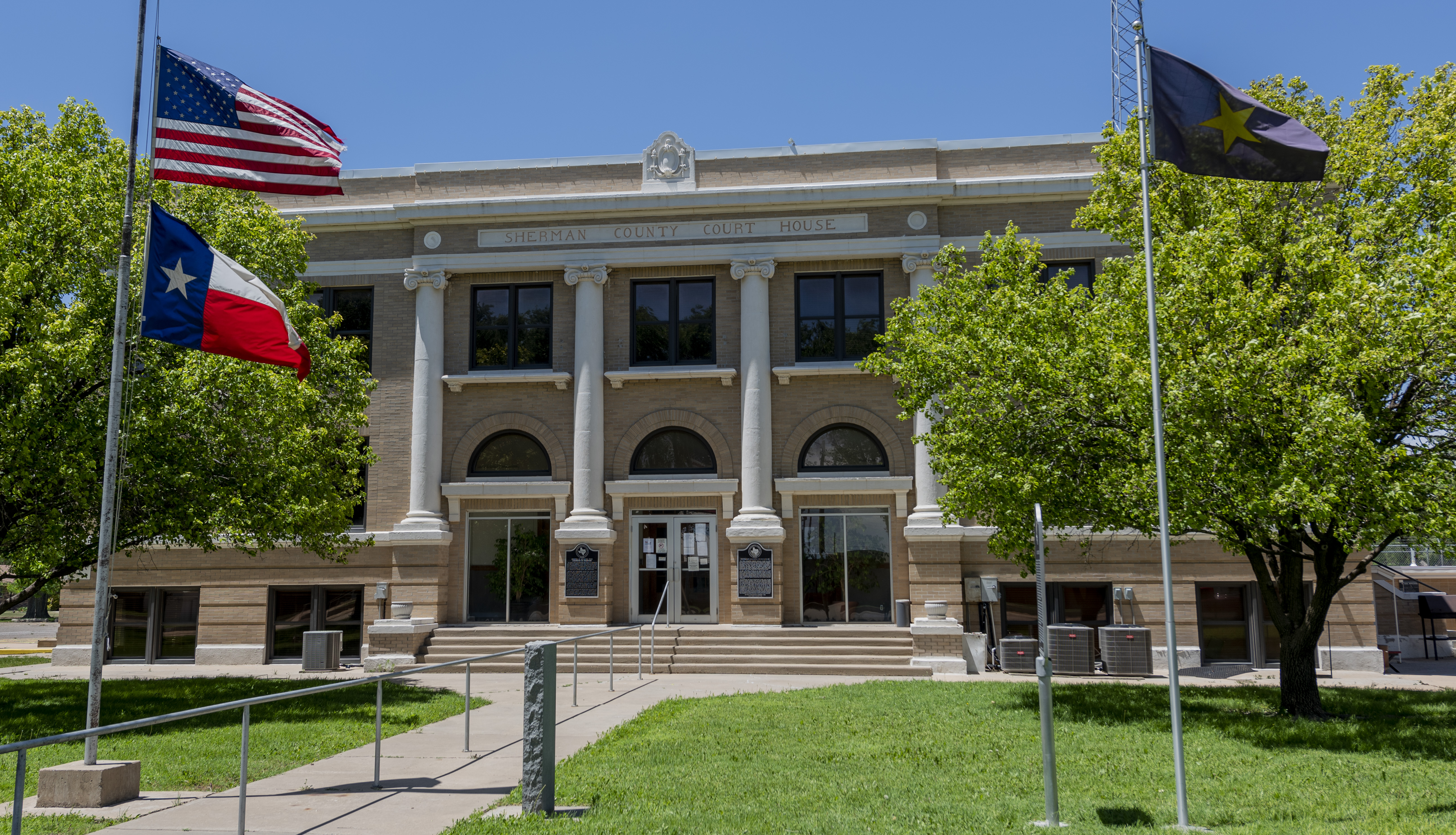 Image of the Sherman County, Texas courthouse located in Stratford, Texas. Taken in May 2020.